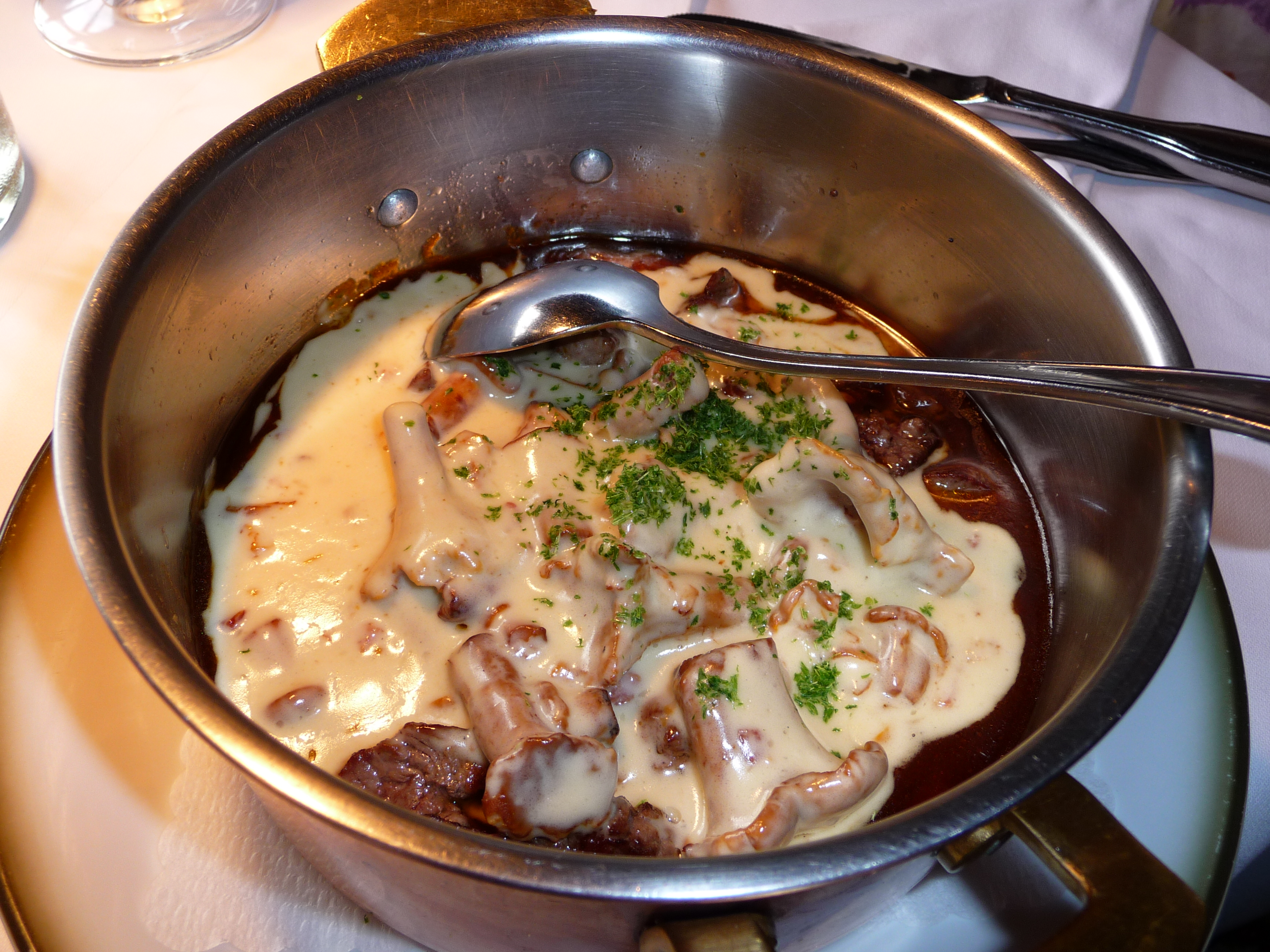 Sliced veal with fresh chanterelle in cream sauce